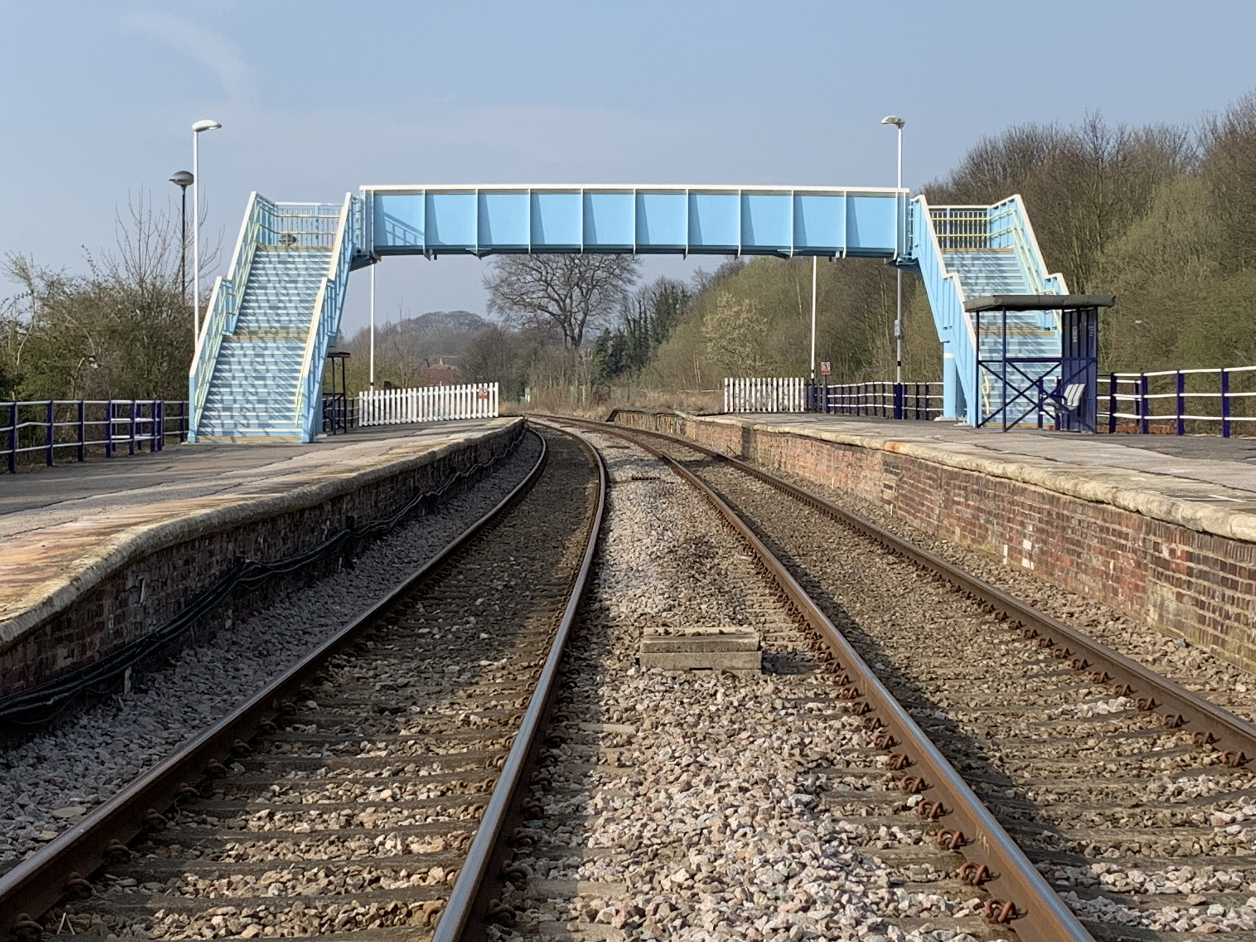 View of both platforms, from the barrow crossing, featuring the stepped footbridge